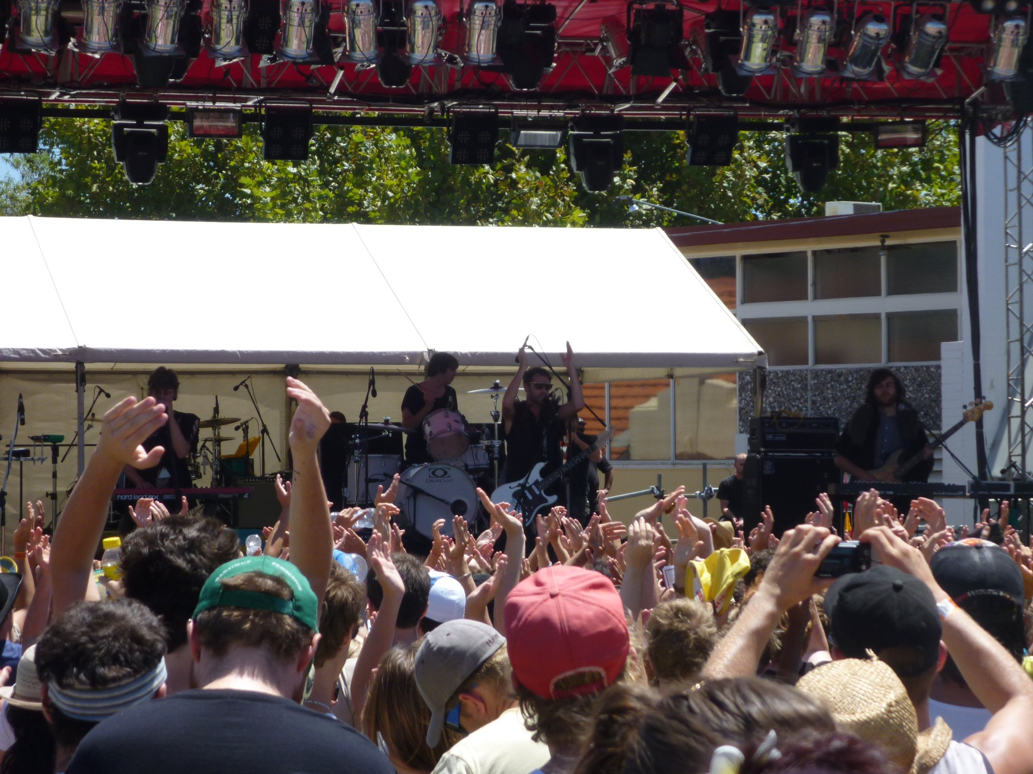 Miami Horror performs in January 2010 at the Big Day Out music festival.